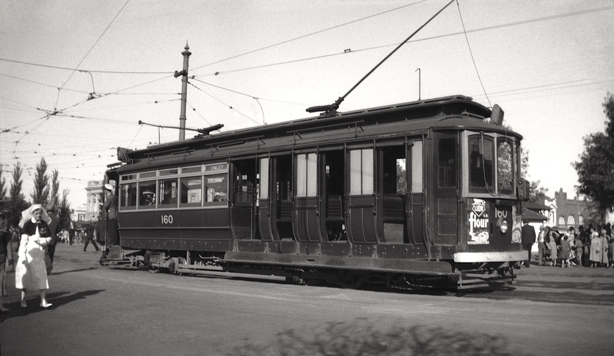 A 1911-vintage Municipal Tramways Trust Type D tram no. 160 in the north-east quadrant of Victoria Square near Wakefield Street (Adelaide) on the morning of 25 April 1956, Anzac Day. Remembrance ceremonies had ended and people were heading home or to the pub. A nursing sister in the foreground is wearing her medals earned in World War 2.